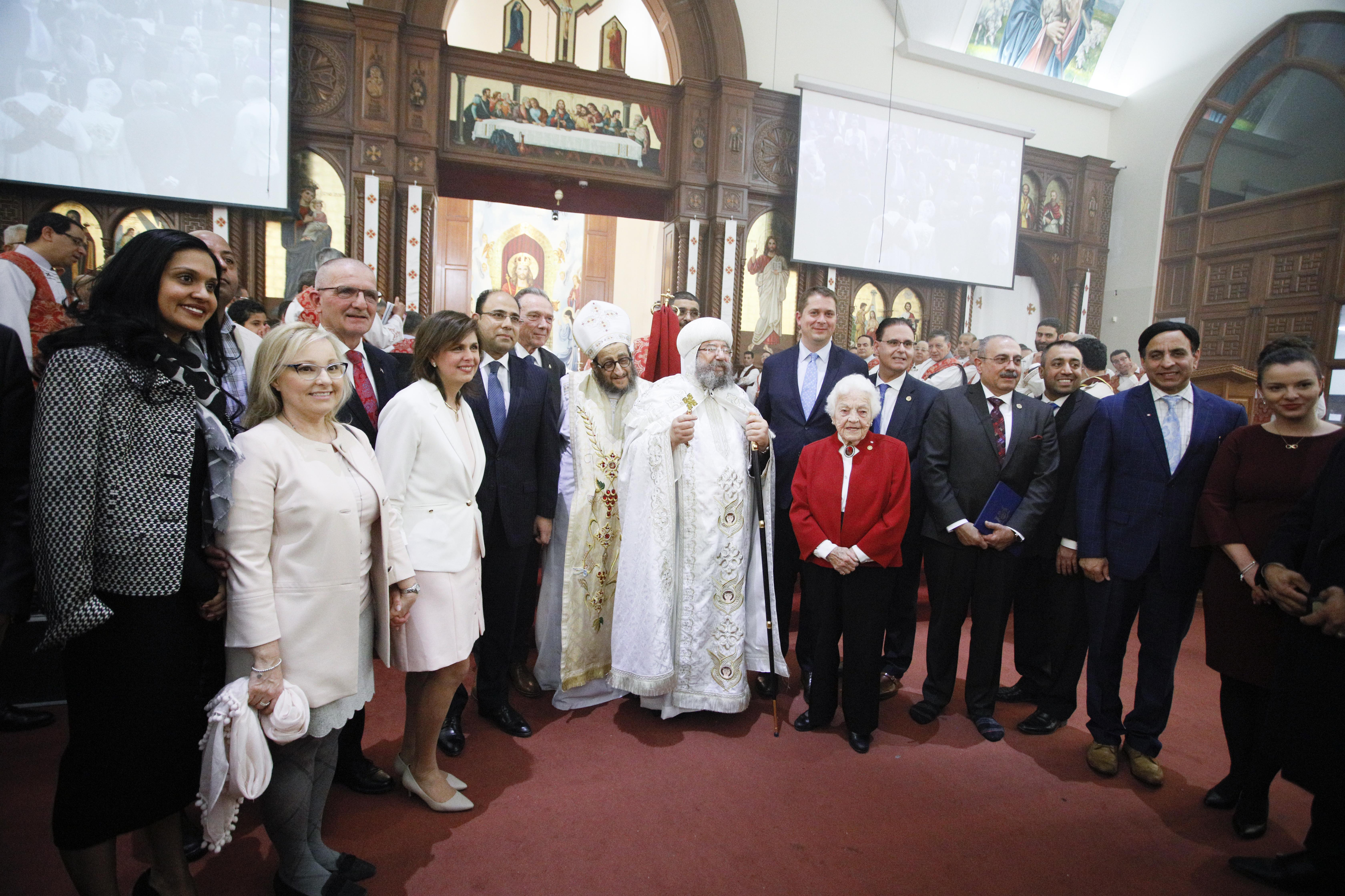 Attended Paschal Divine Liturgy with the Coptic community at the Church of the Virgin Mary and Saint Athanasius in Mississauga this weekend. Thank you to Bishop Mina for the warm welcome. Wishing all Orthodox and Eastern Catholic Christians a Happy Easter. Christos anesti!